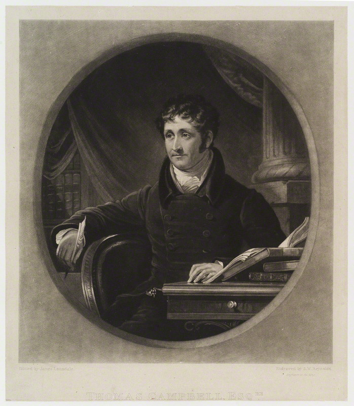 Mezzotint of Thomas Campbell by Samuel William Reynolds, after James Lonsdale